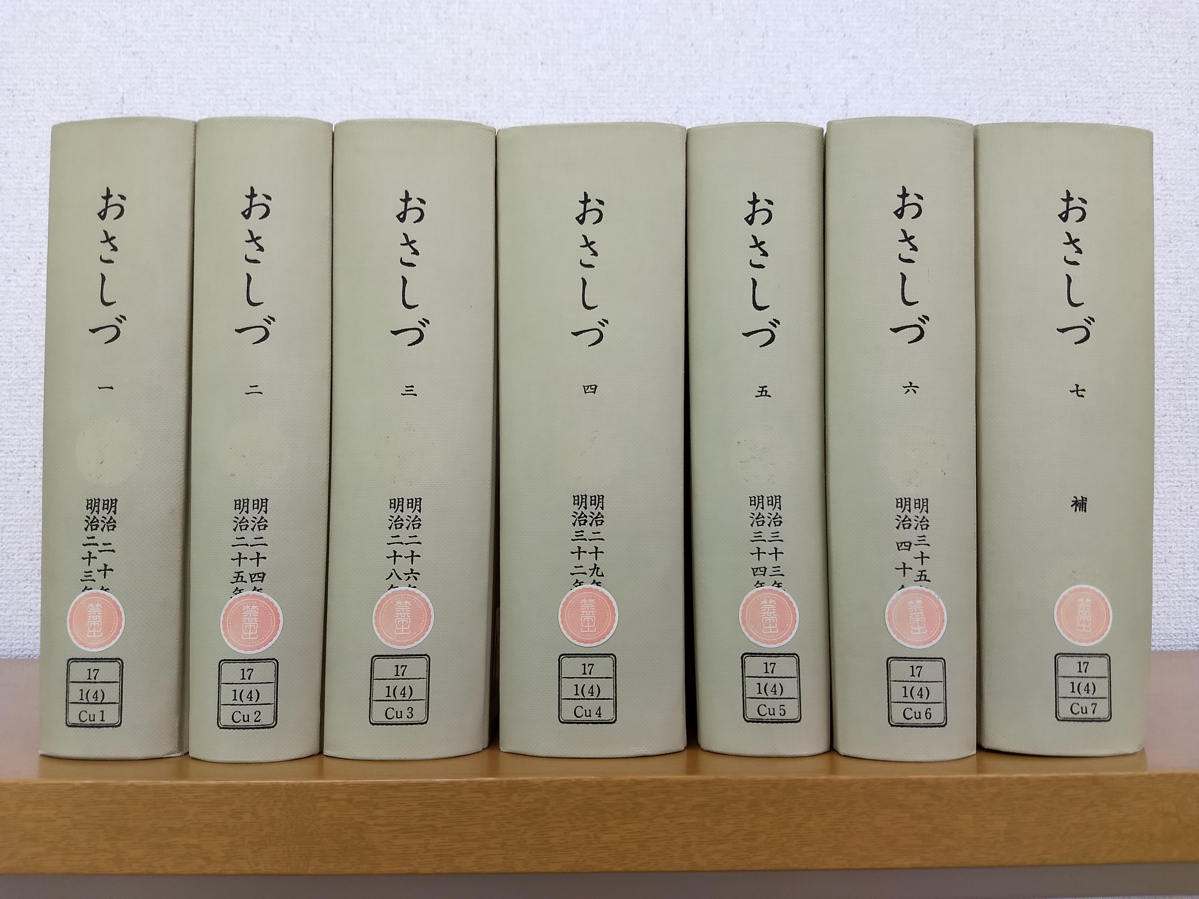 An edition of Tenrikyo scripture known as the Osashizu.